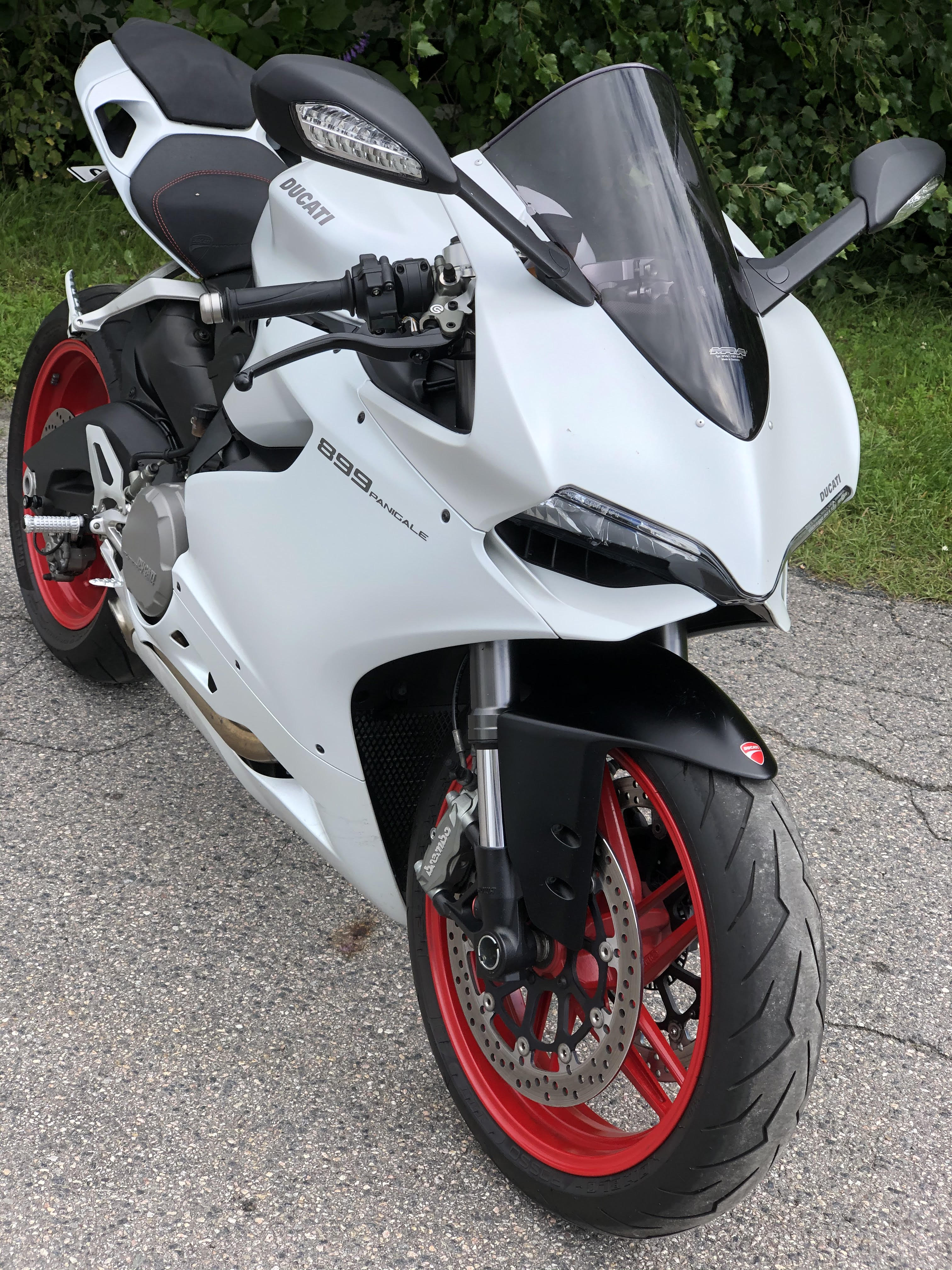 ducati 899 panigale